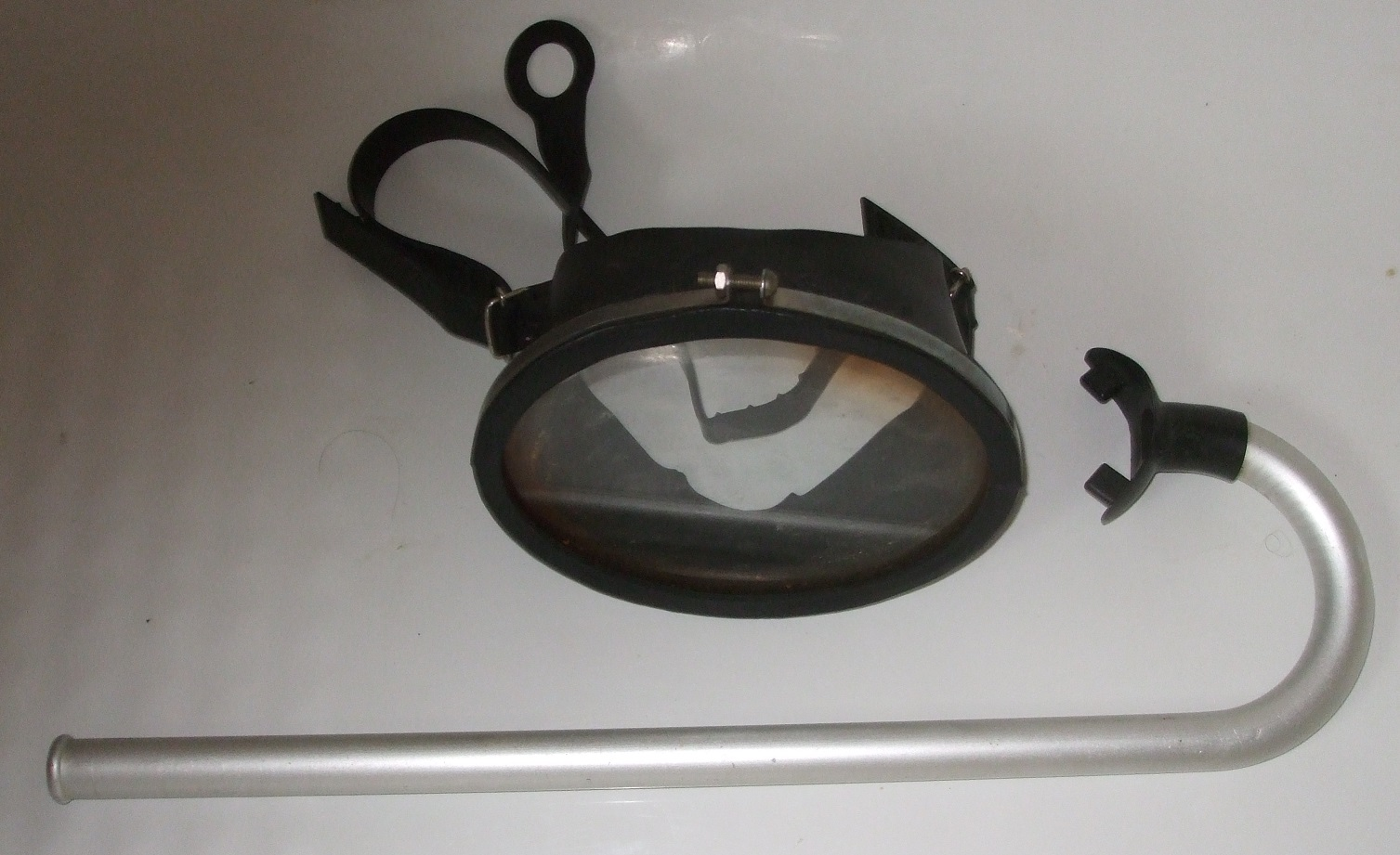 This image illustrates a Hans Hass diving mask and a snorkel tube from the 1950s Heinke range of underwater swimming equipment. Hans Hass mask catalogue description: "Manufactured in a high grade black rubber which ensures that the feather edge sealing surface retains its shape. The strap has ridges moulded into it which prevents it from pulling through the buckles when wet. The laminated safety glass is retained in its housing by a chromium plated retaining strip." Snorkel tube catalogue description: "This is a breathing tube in its simplest form and is of the type used by the majority of snork divers. The tube is of bent anodised aluminium and is fitted with a robust mouth piece."